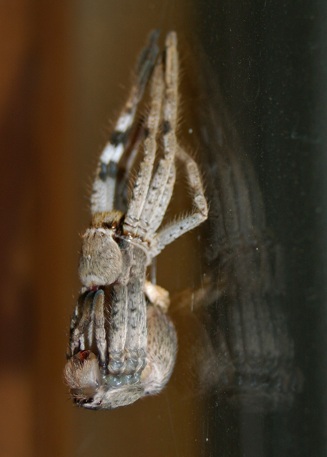 Huntsman spider (Isopeda villosa) discarding its old skin. Because this photograph concerns privacy since this was taken on a private property, only an approximate location is provided: Wagga Wagga, New South Wales, Australia